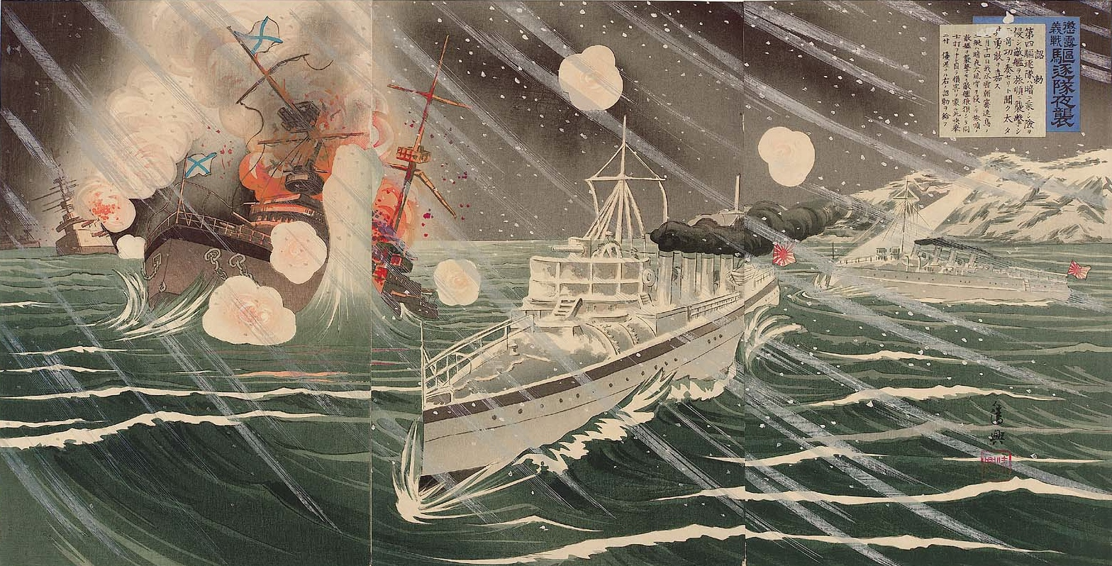 "A Righteous War to Chastise the Russians The Destroyer Force's Night Attack": A Japanese propaganda block print of an attack on Port Arthur (Most likely the Battle of Port Arthur) during the Russo-Japanese War. The image depicts a Japanese ship sinking a Russian ship.